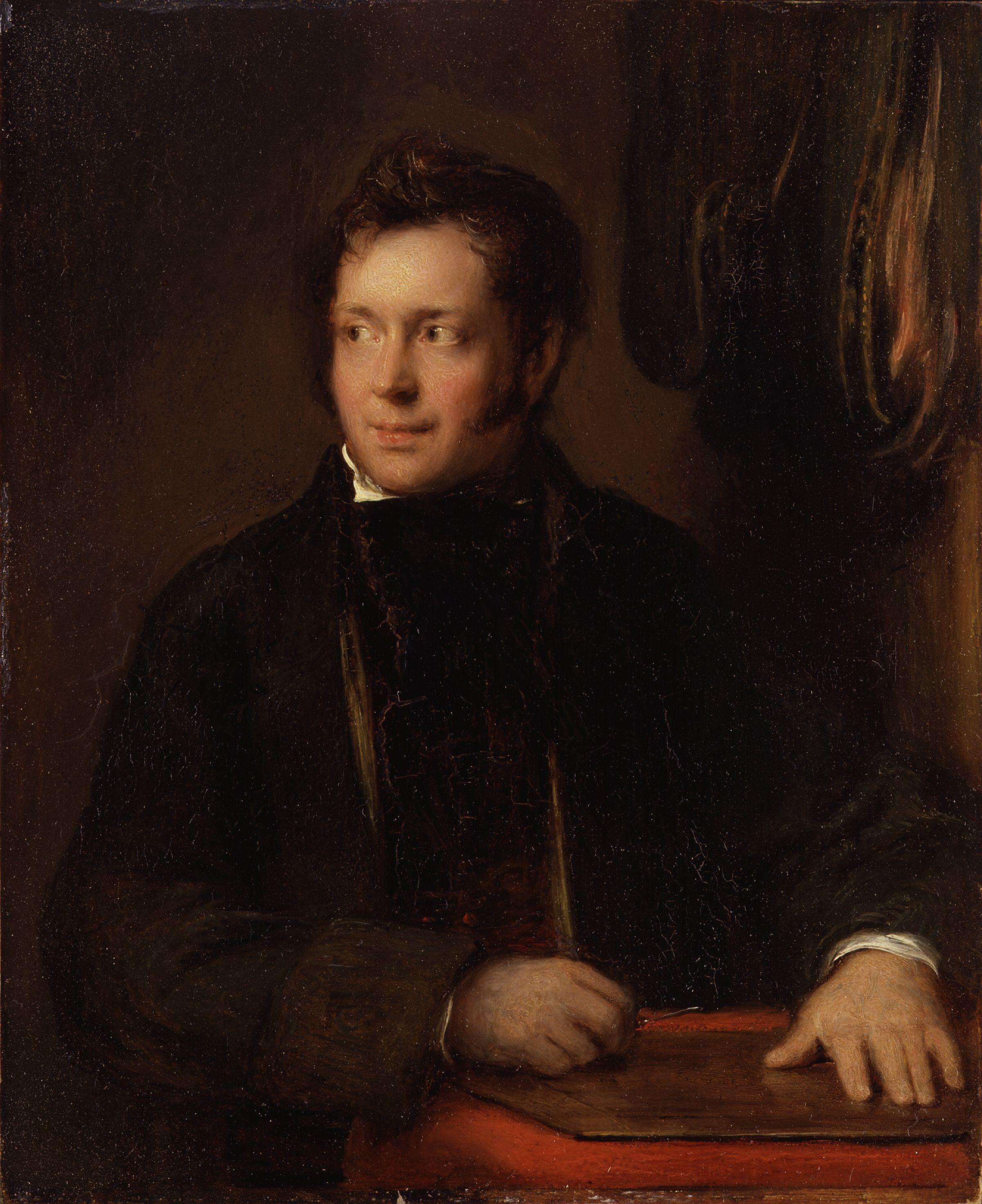 Abraham Raimbach (16 February 1776 - 17 January 1843), was an English line-engraver of Swiss descent, painting by Sir David Wilkie (died 1841). All images in this batch have been confirmed as author died before 1939 according to the official death date listed by the NPG.